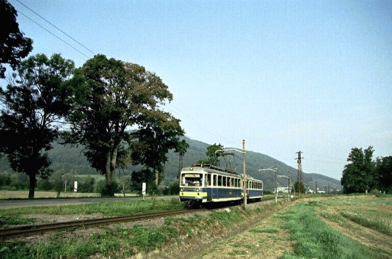 Trenčín electric railway